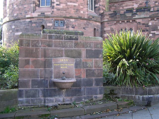 Robert Ferguson Fountain, Carlisle. Located beside the citadel, it is dated 1859 and he was a former mayor of the city